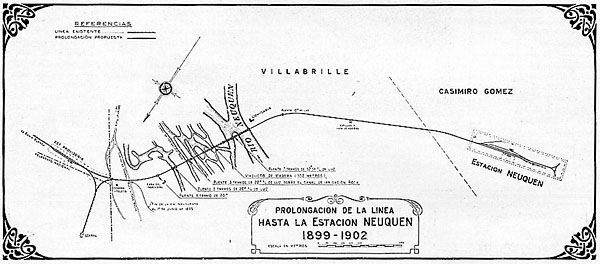 Plan of the proposed expansion of the Ferrocarril Sud to Neuquén station.